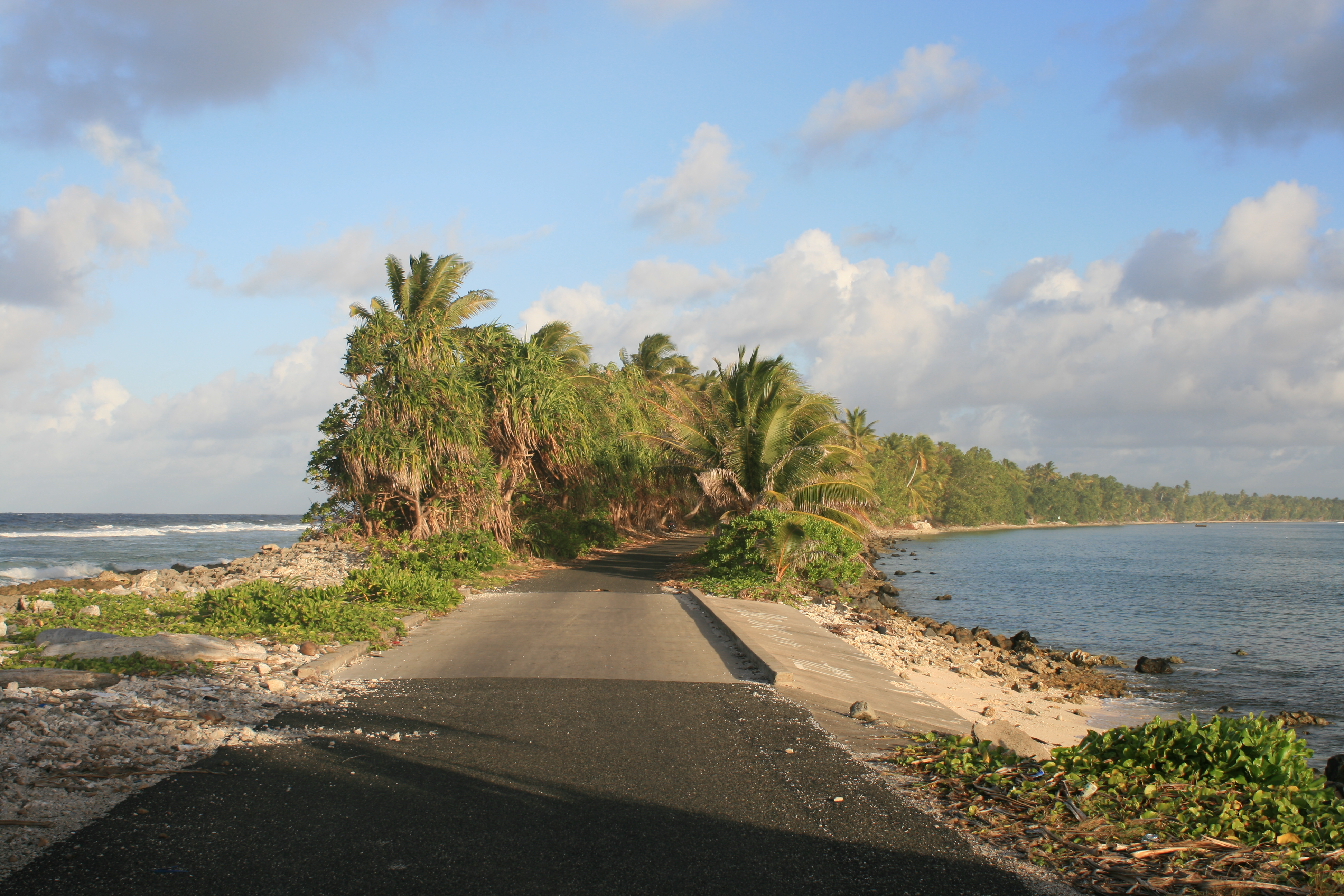 Funafuti in Tuvalu looking south.